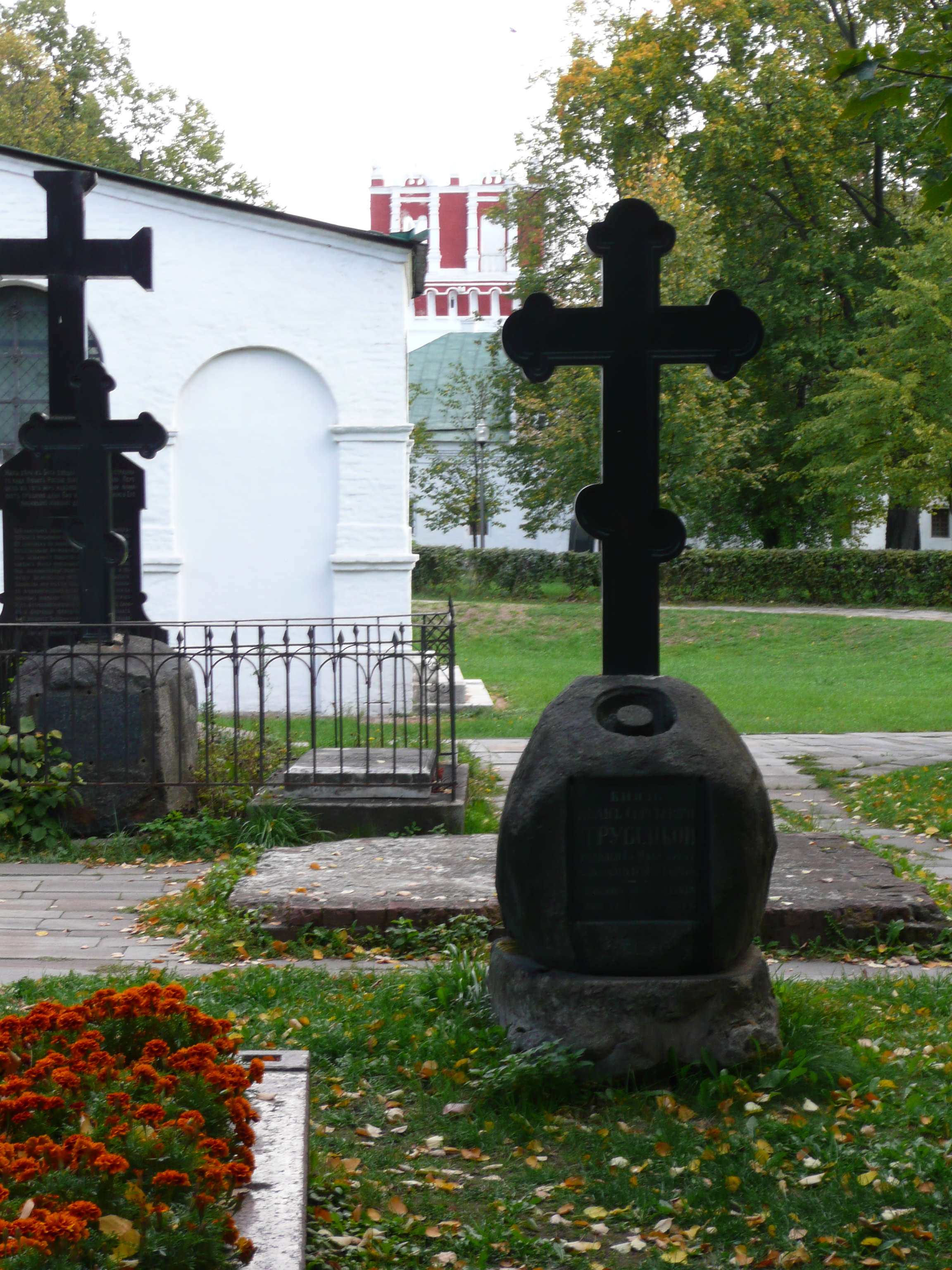 The tombs of Princes Trubetskoy at the Novodevichy Convent, Moscow